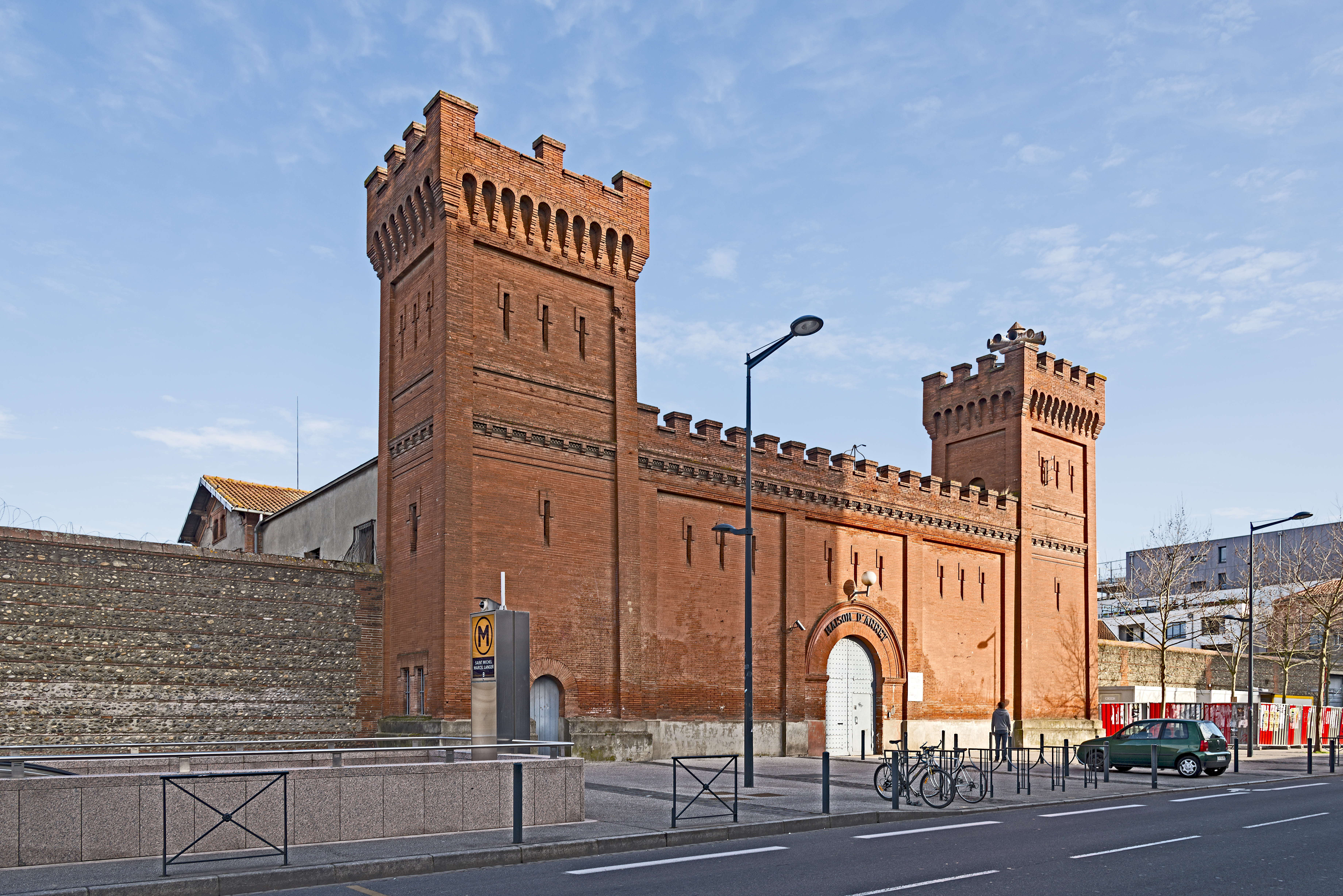 Prison Saint-Michel (Toulouse) (1854-1862) – The facade of the input castelet, treated in the neo-medieval style. Architecte : Jacques-Jean Esquié